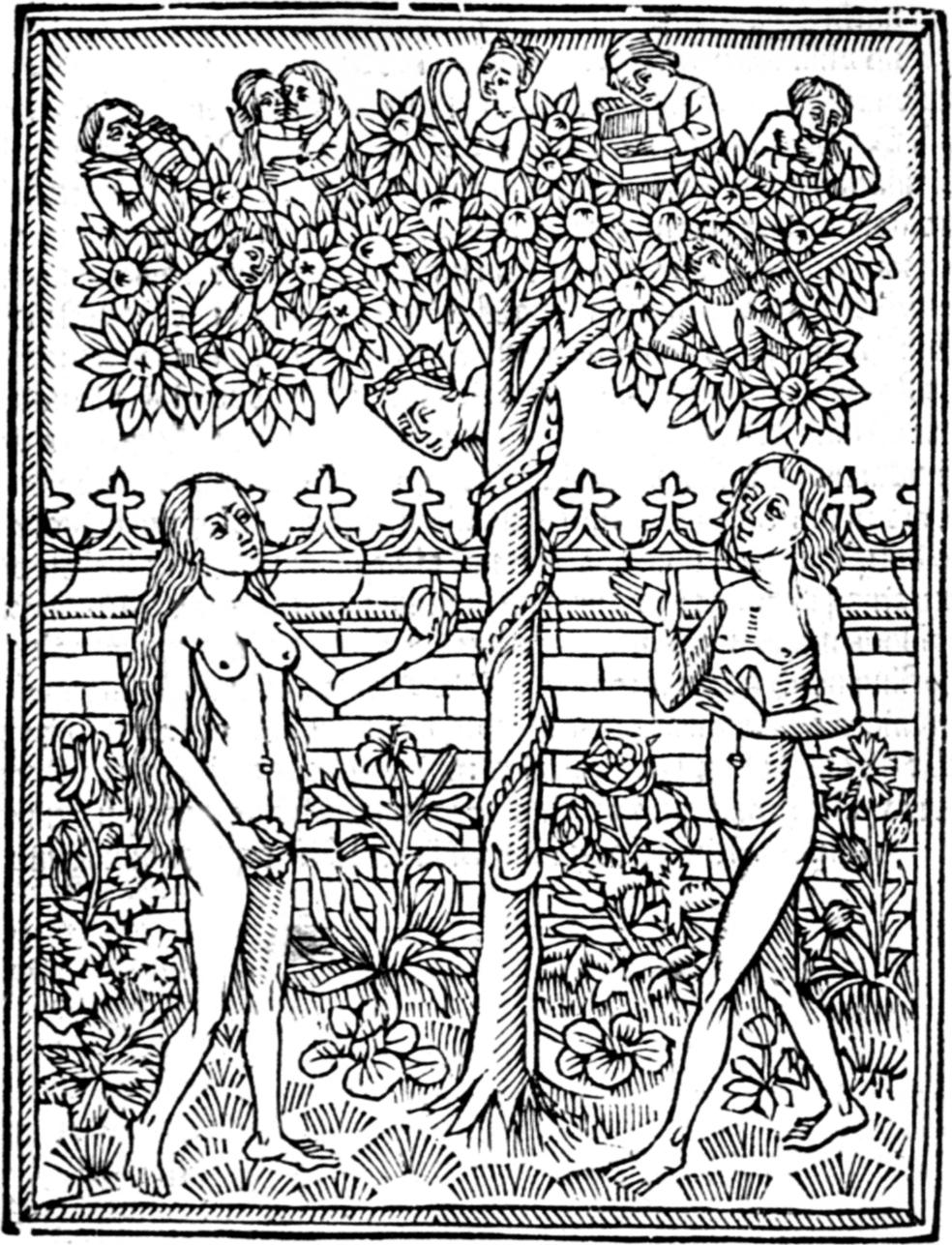 The Seven Deadly Sins. From Boccaccio (s.a.) De claris mulieribus.